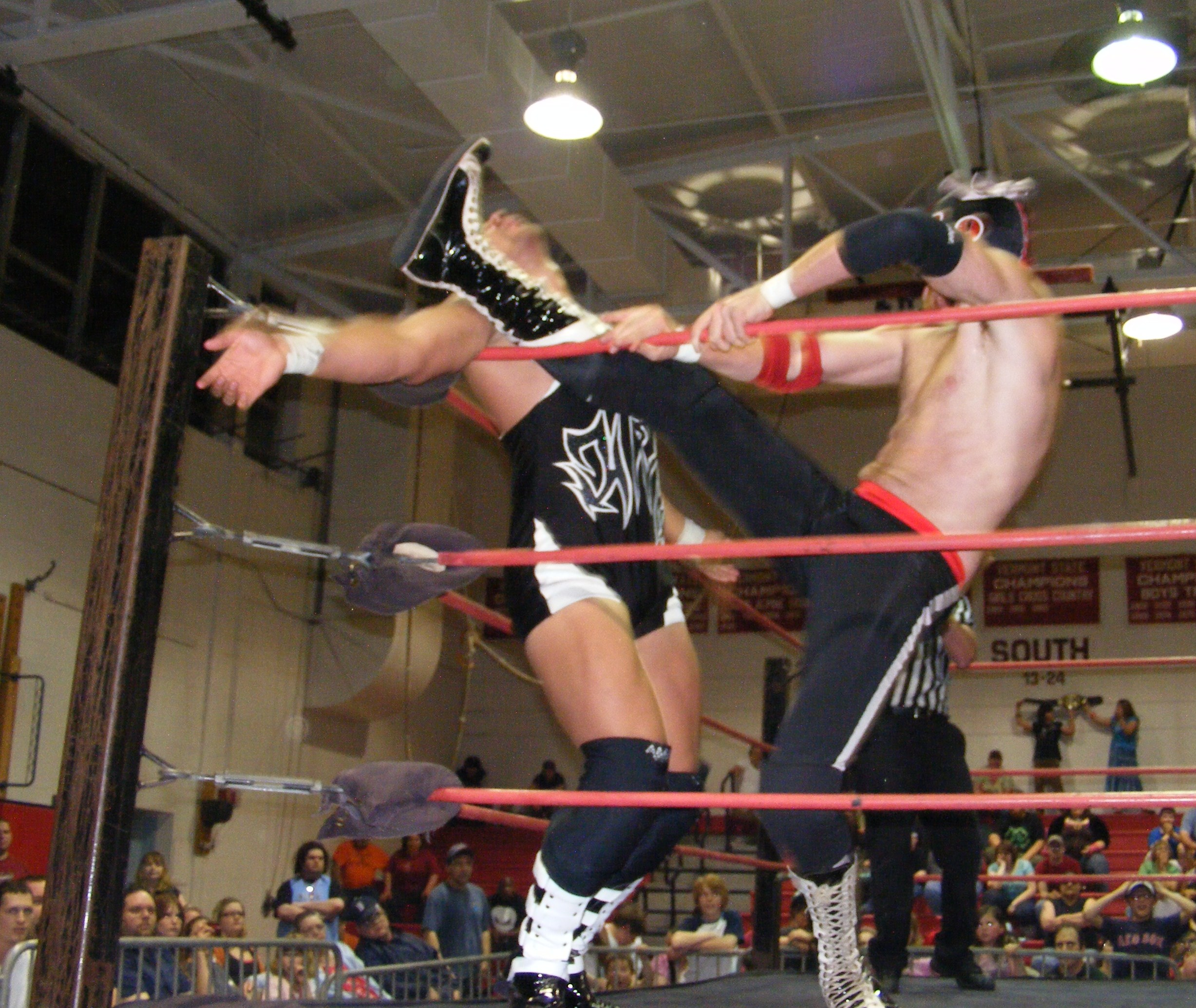 Professional wrestler El Generico (real name Rami Sebei) performing the Yokuza/Helluva Kick in a match against Vegas at an APW show in Rutland, Vermont on May 16, 2009